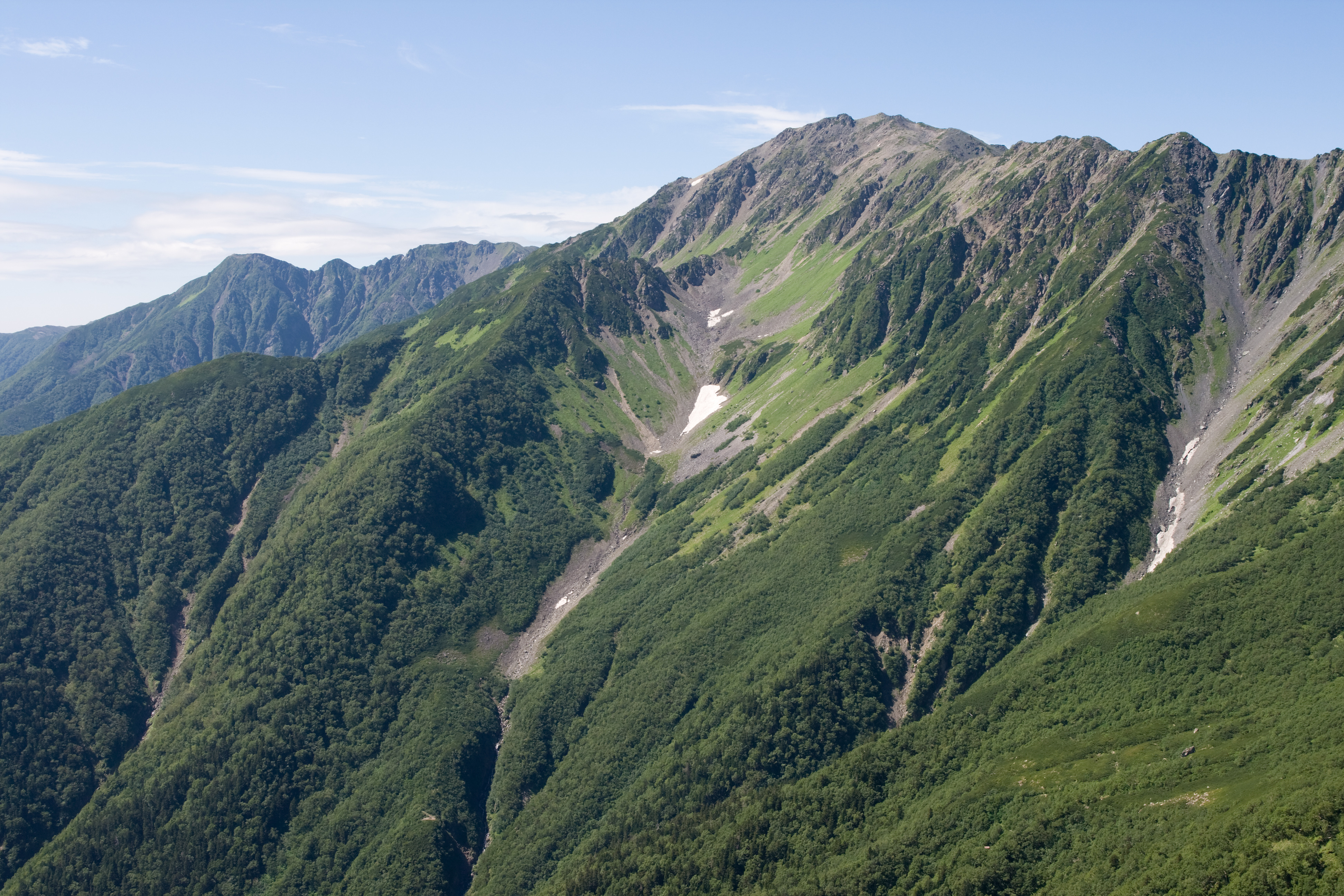 Mt. Ainodake(3189m) in Mts.Akaishi, Honshu, Japan.